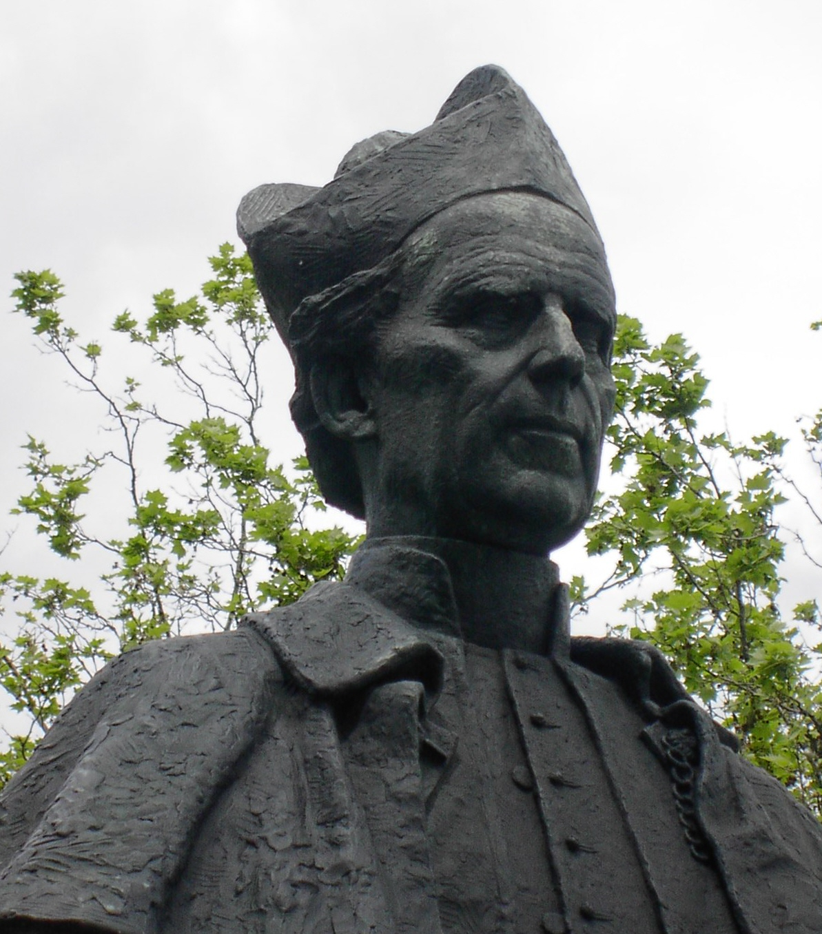 This picture was taken by me, User:Adam Carr, and is released by me into the public domain